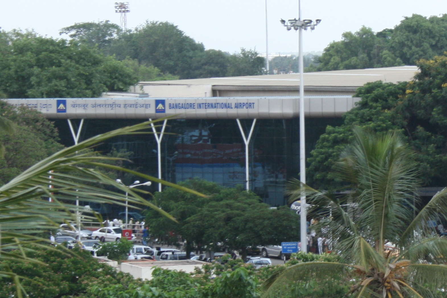 The passenger terminal at HAL Airport in Bengaluru, Karnataka. It closed in 2008.